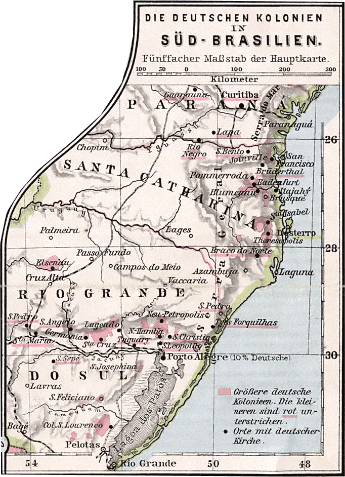 Historical map of German colonies at South Brazil (1905)